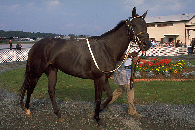 Thoroughbred racehorses exercising in paddock before racing at the Maryland State Fair.